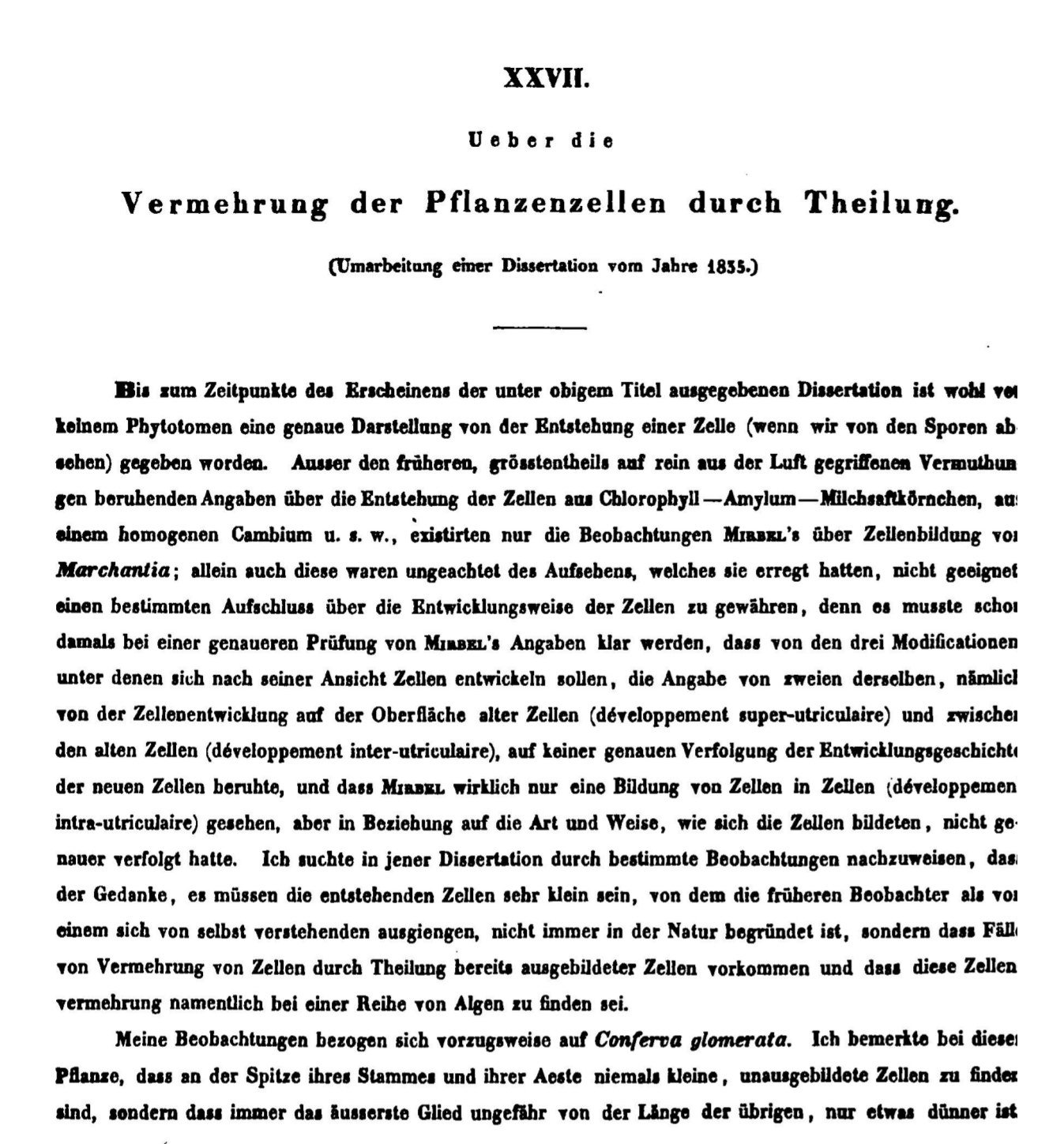 Start of re-publication of Mohl's dissertation (1835) where he observed, and described for the first time, division of a cell.